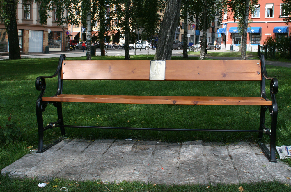 A parkbench set up in memory of Norwegian musician Robert Burås (1975–2007) in the Birkelunden park in Oslo. Burås was a frequent user of the park.